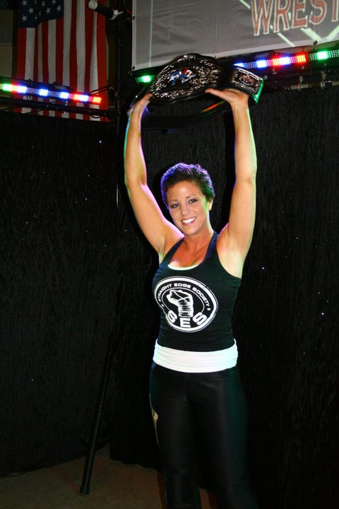 Serena Deeb winning the Great Lakes Championship Wrestling Ladies Championship.